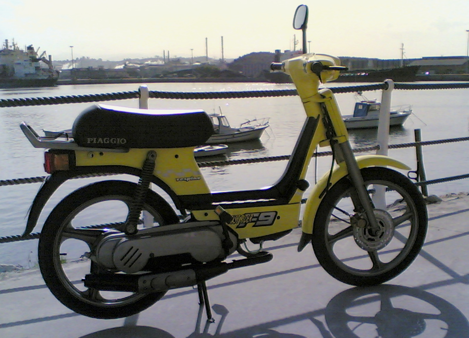 Moped Vespino F9